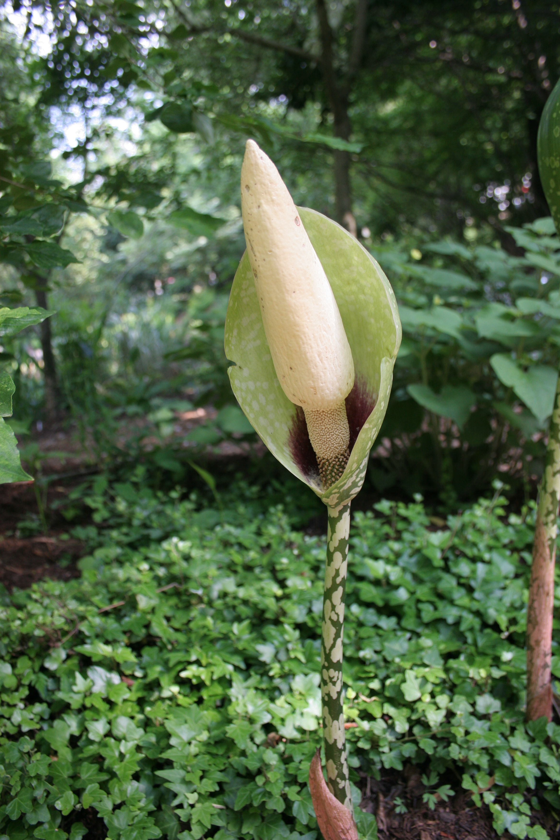 Amorphophallus dunnii, North Carolina.